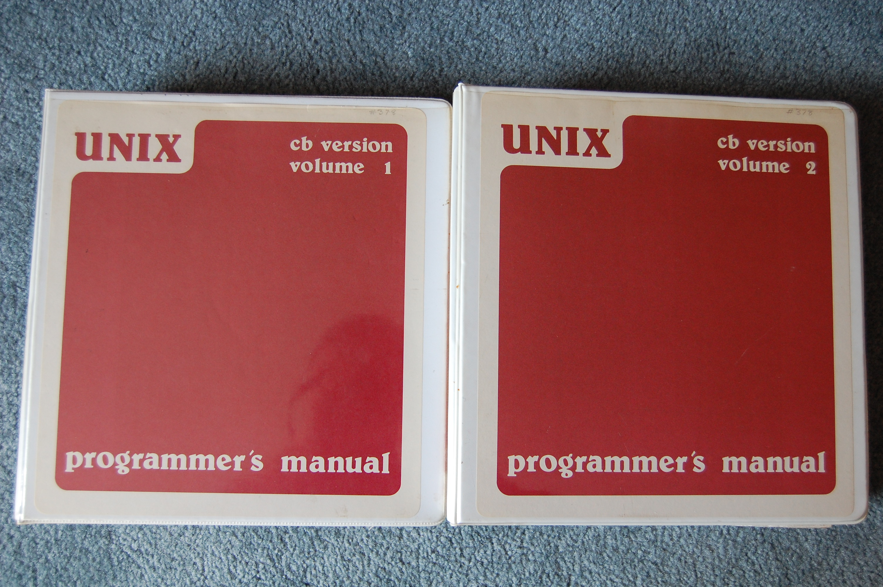 Front Cover of CB Unix Manuals, Volume 1 and 2